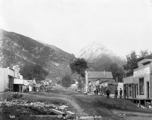 View east along Galena Avenue, Crestone, Saguache County, Colorado, includes wood frame and false fronts buildings; commercial signs read: "The Geo. C. Stainer, Prescription Drug Store" "Restaurant."